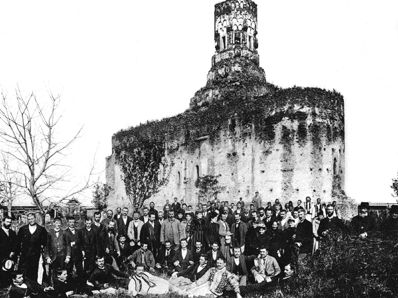 White Church, Baia